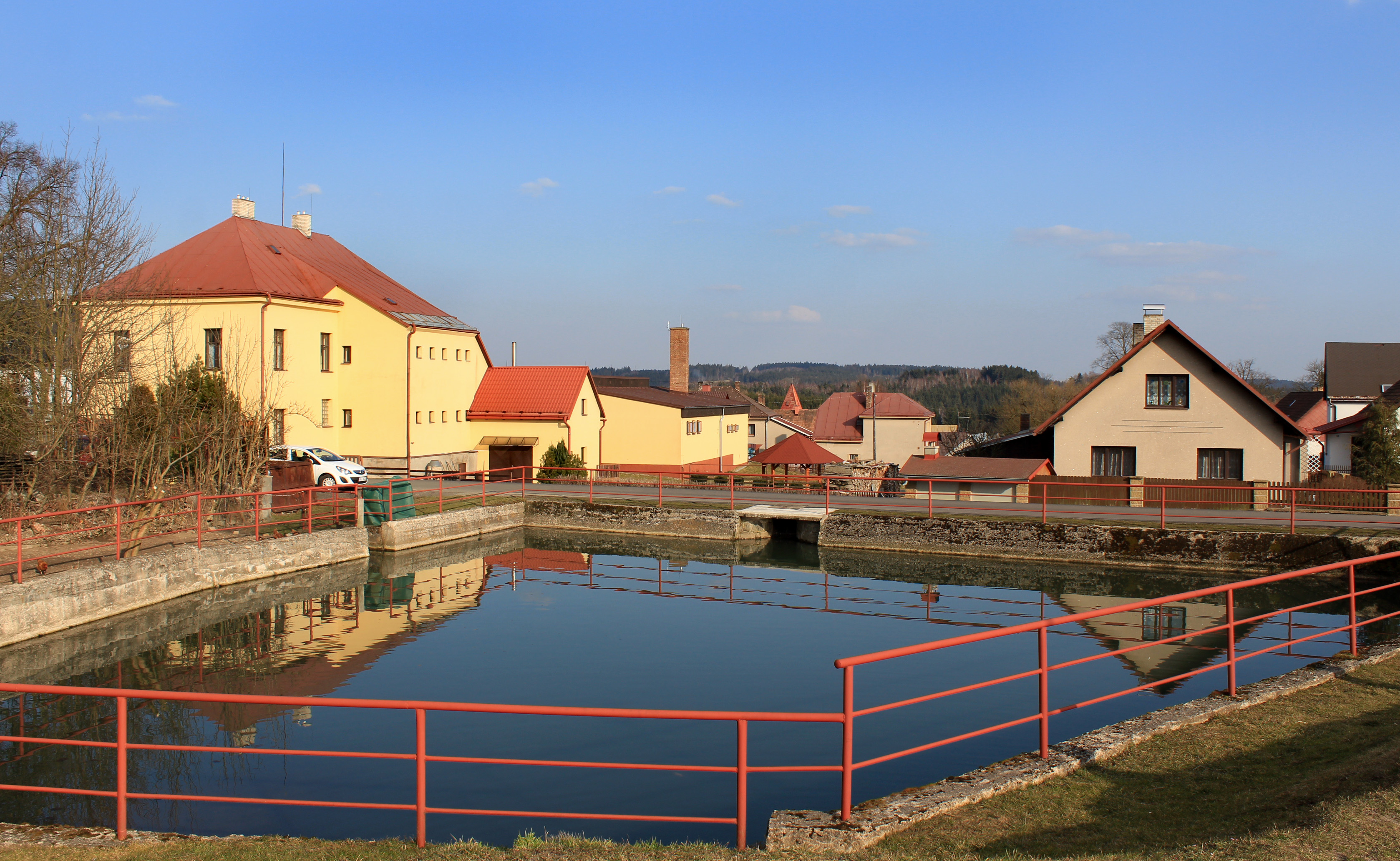 Common pond in Studnice, Czech Republic.